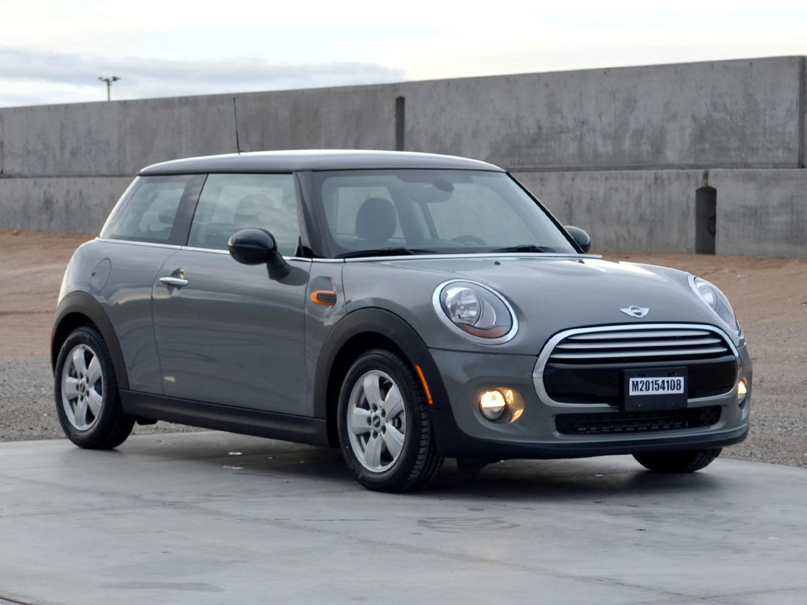 2015 MINI Cooper Hardtop 2 door, photographed in USA.